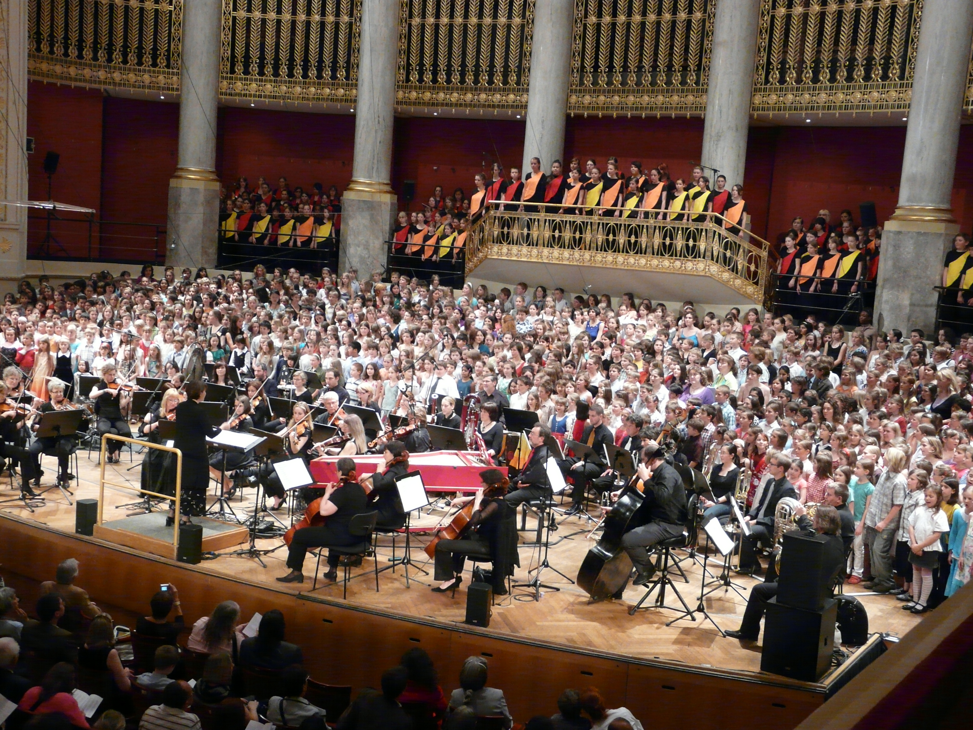 Concert with the song "Winterpracht" of Hans-Jürgen Bareiss